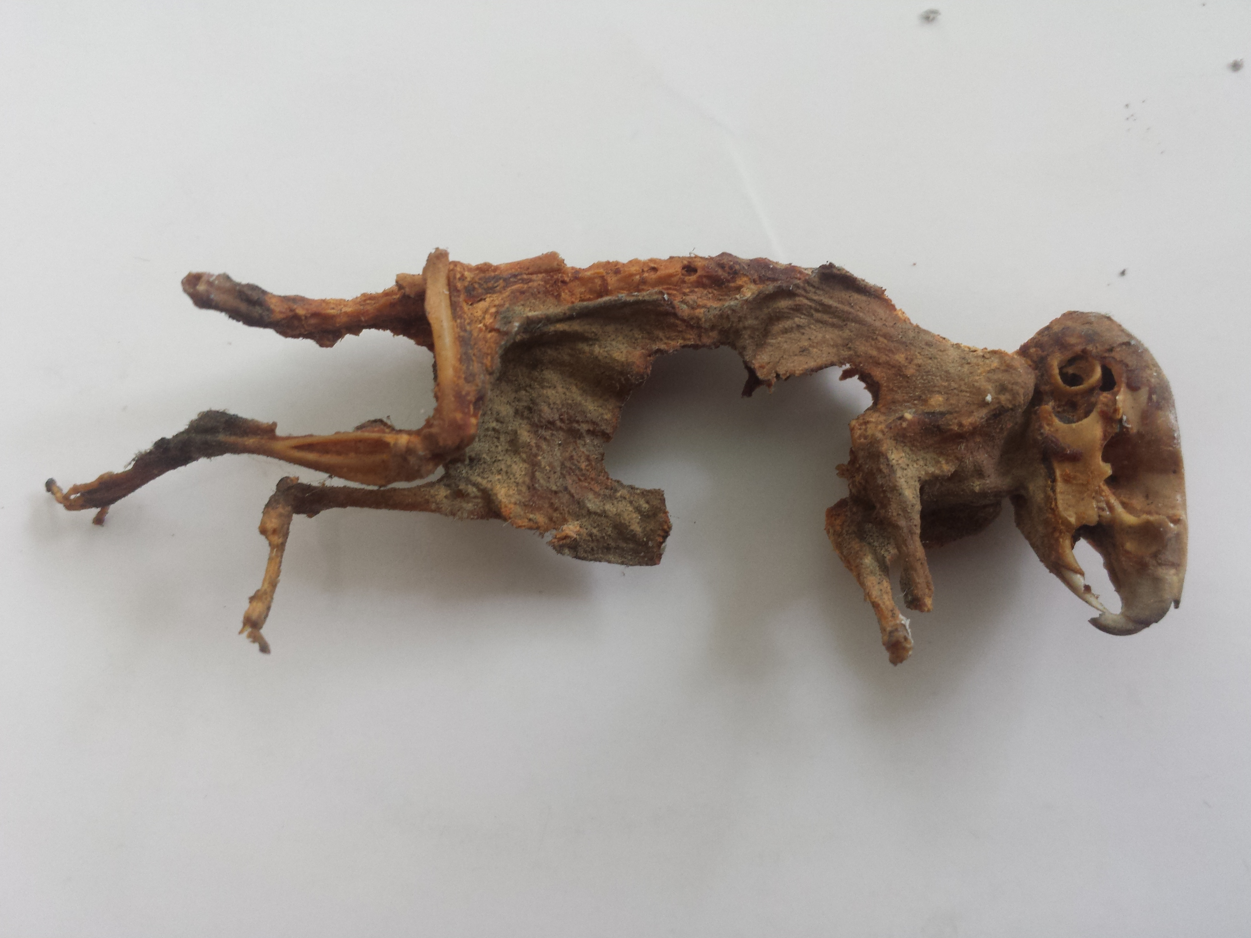 The desiccated corpse of a spiny mouse (genus Acomys). A local pet shop sold three "Egyptian spiny mice" to members of my family. The mice were surprisingly quick and managed to escape their cage several times. On one occasion we only recovered two. Around fifteen years later some electricians found its partially preserved corpse in the wall. Note the shortened tail probably lost in a degloving injury.